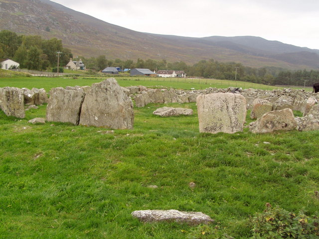 Delfour Ring Cairn Remains of Delfour Ring Cairn and possible stone circle looking NW